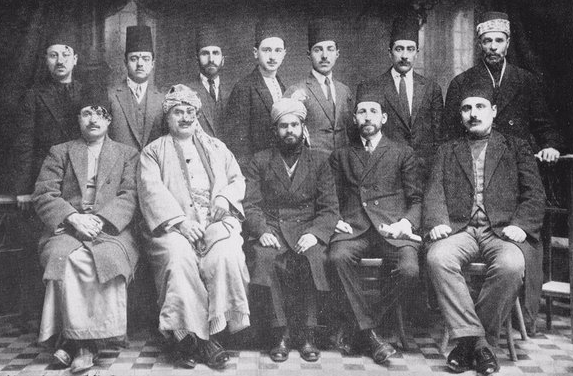 Early Ahmadi Muslims of Syria. Seated at the center is Jalal-ud-Din Shams